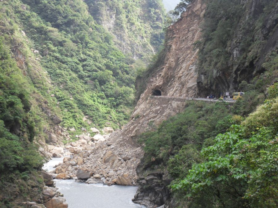 Earthslide in Taroko National park